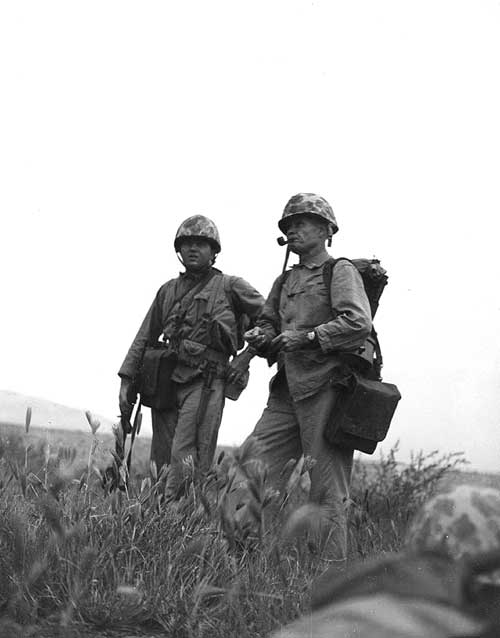 Marine Colonel Lewis B. Puller, right, who distinguished himself during the Inchon landing, studies the terrain before advancing to another enemy objective beyond Inchon.